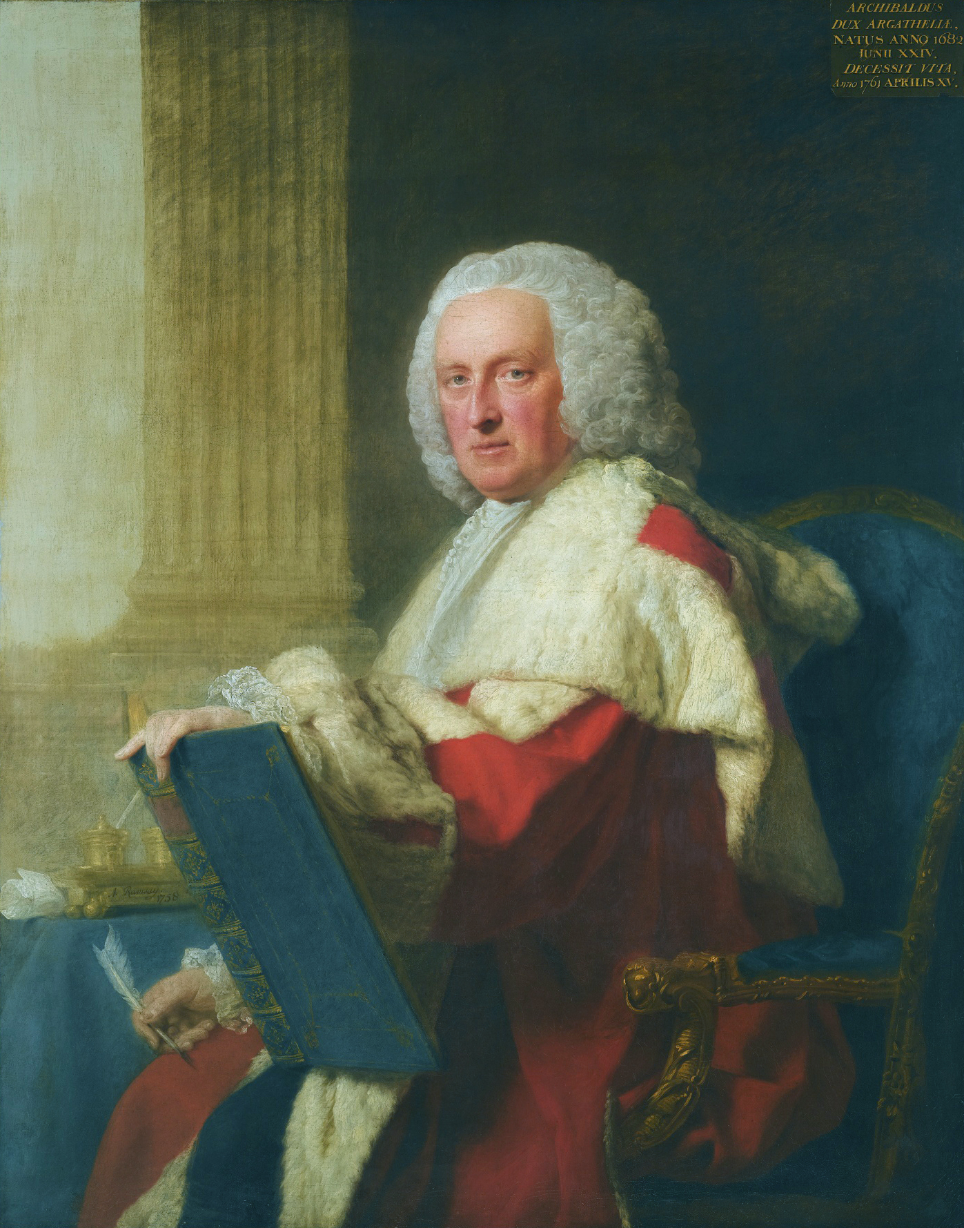 Archibald Campbell, 2rd duke of Argyll (1682–1761)